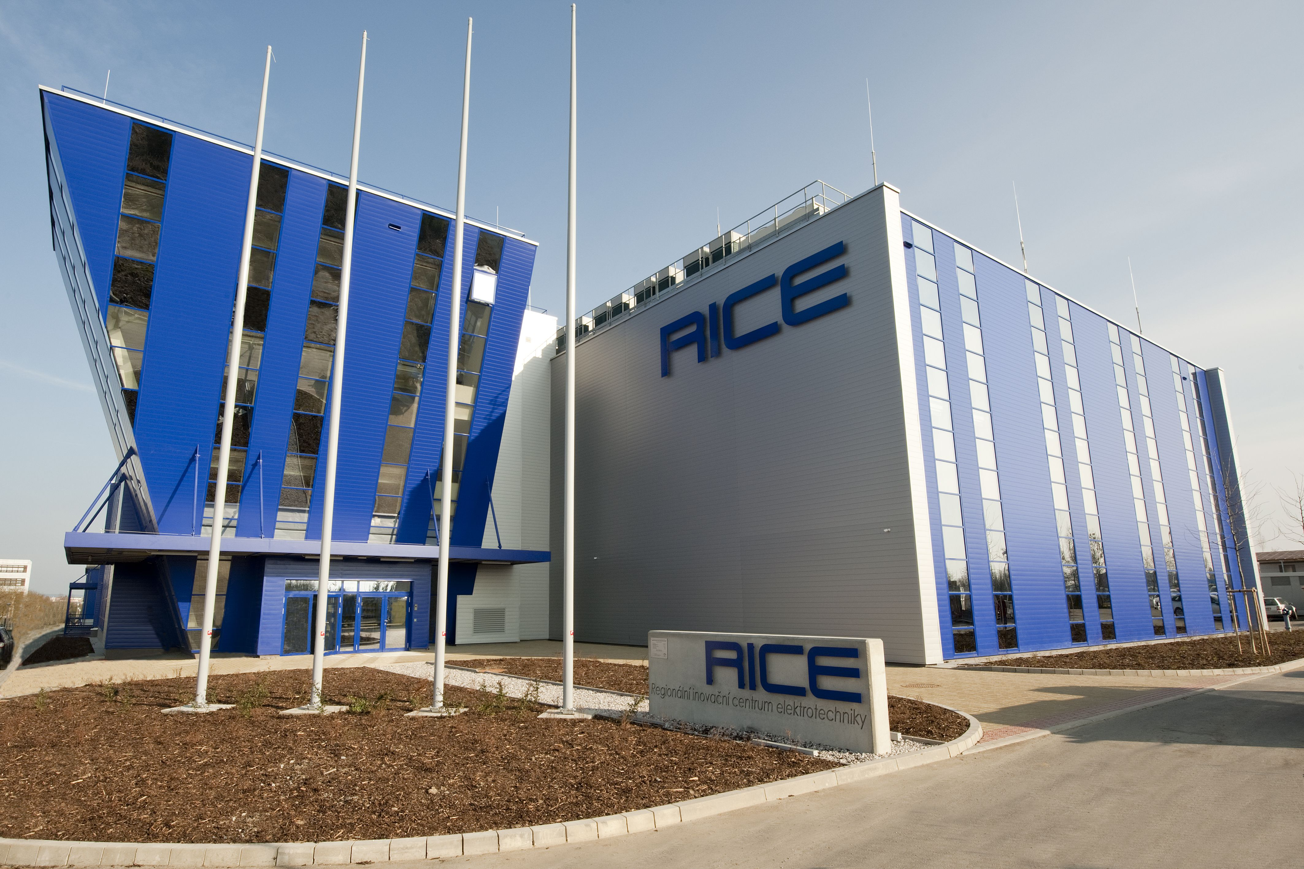 Building of Research Centre RICE - Regional Innovation Centre for Electrical Engineering - University of West Bohemia, Pilsen, Czech republic